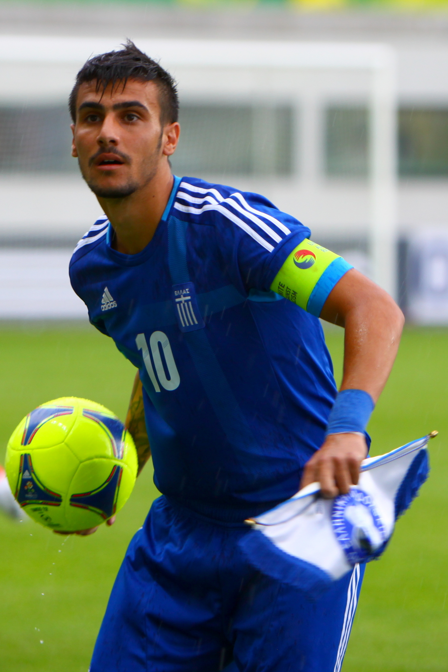 U-19 England vs Greece.